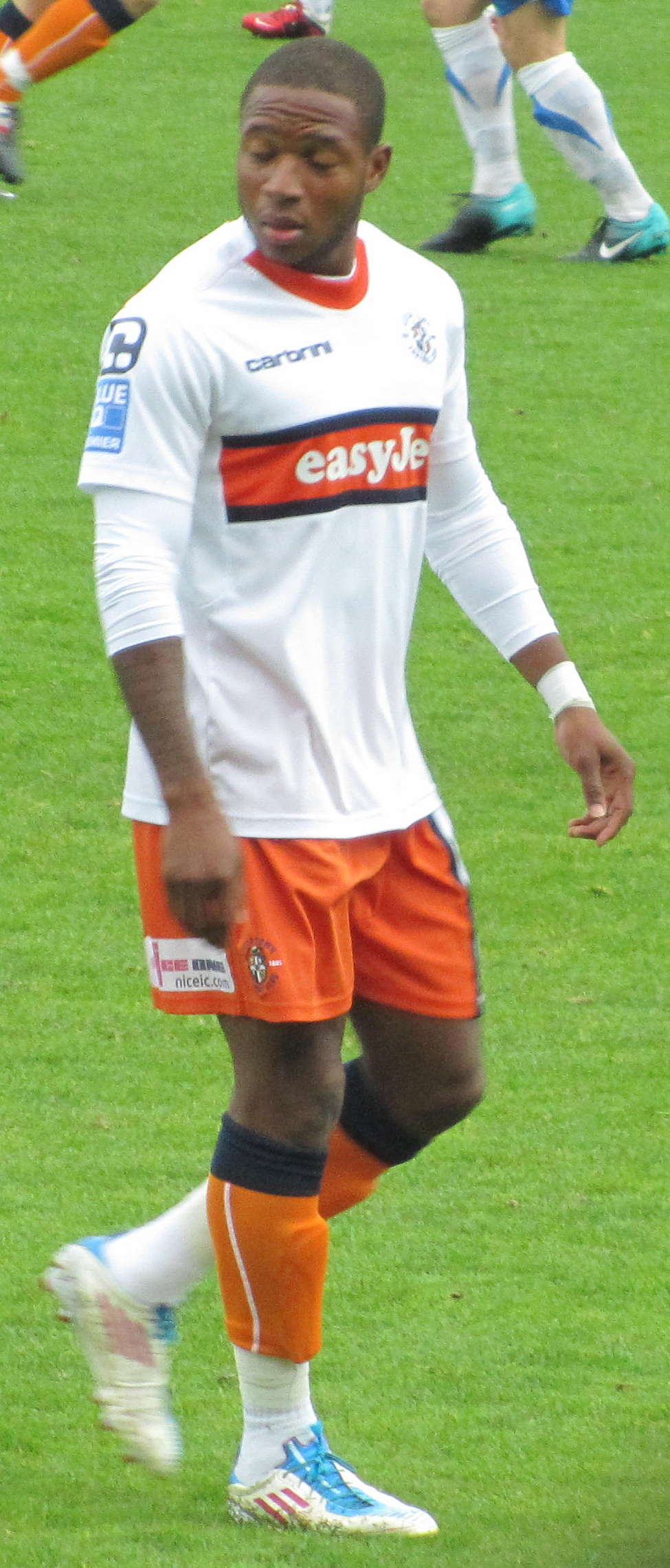 Aaron O'Connor